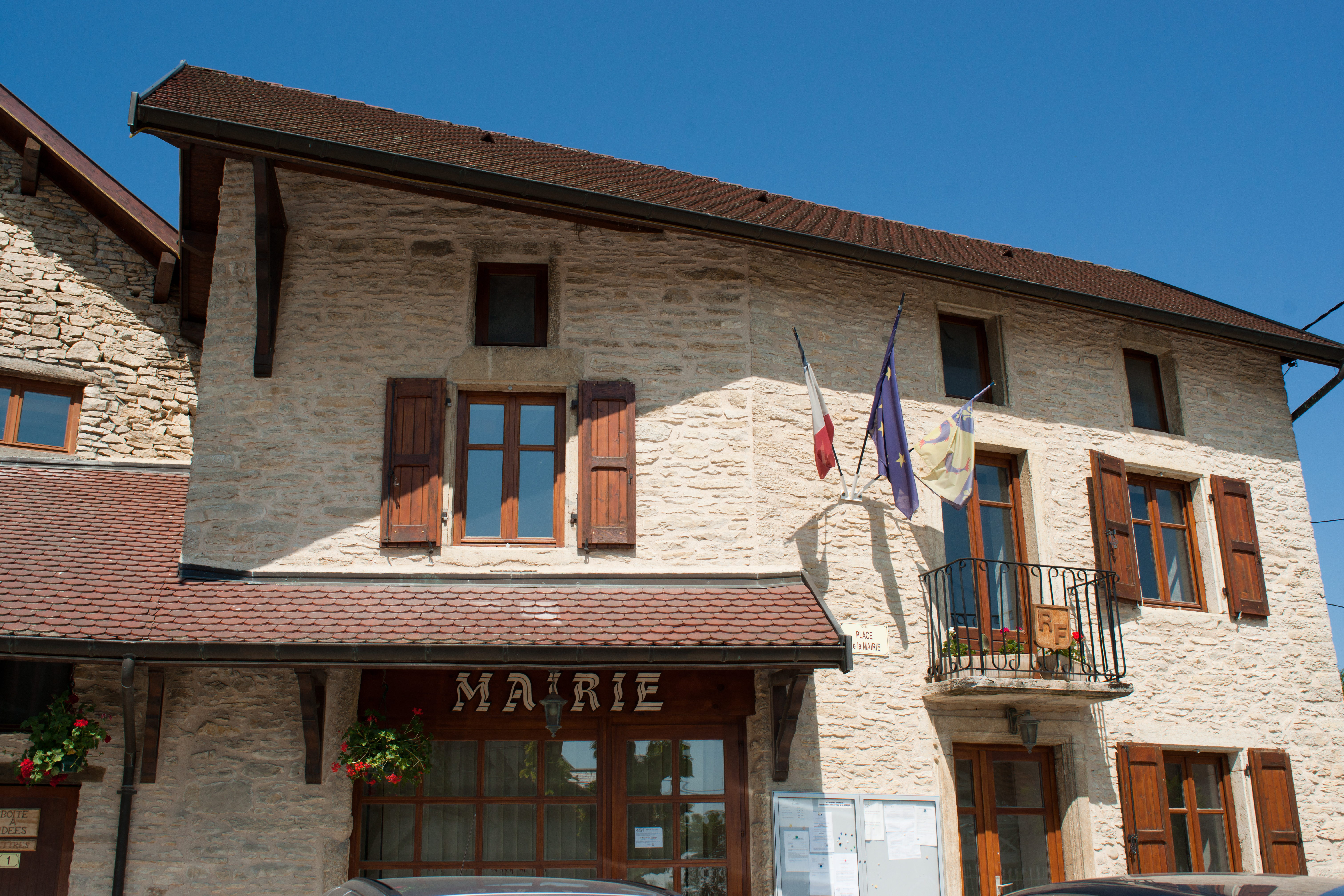 Townhall of Seillonnaz, France.